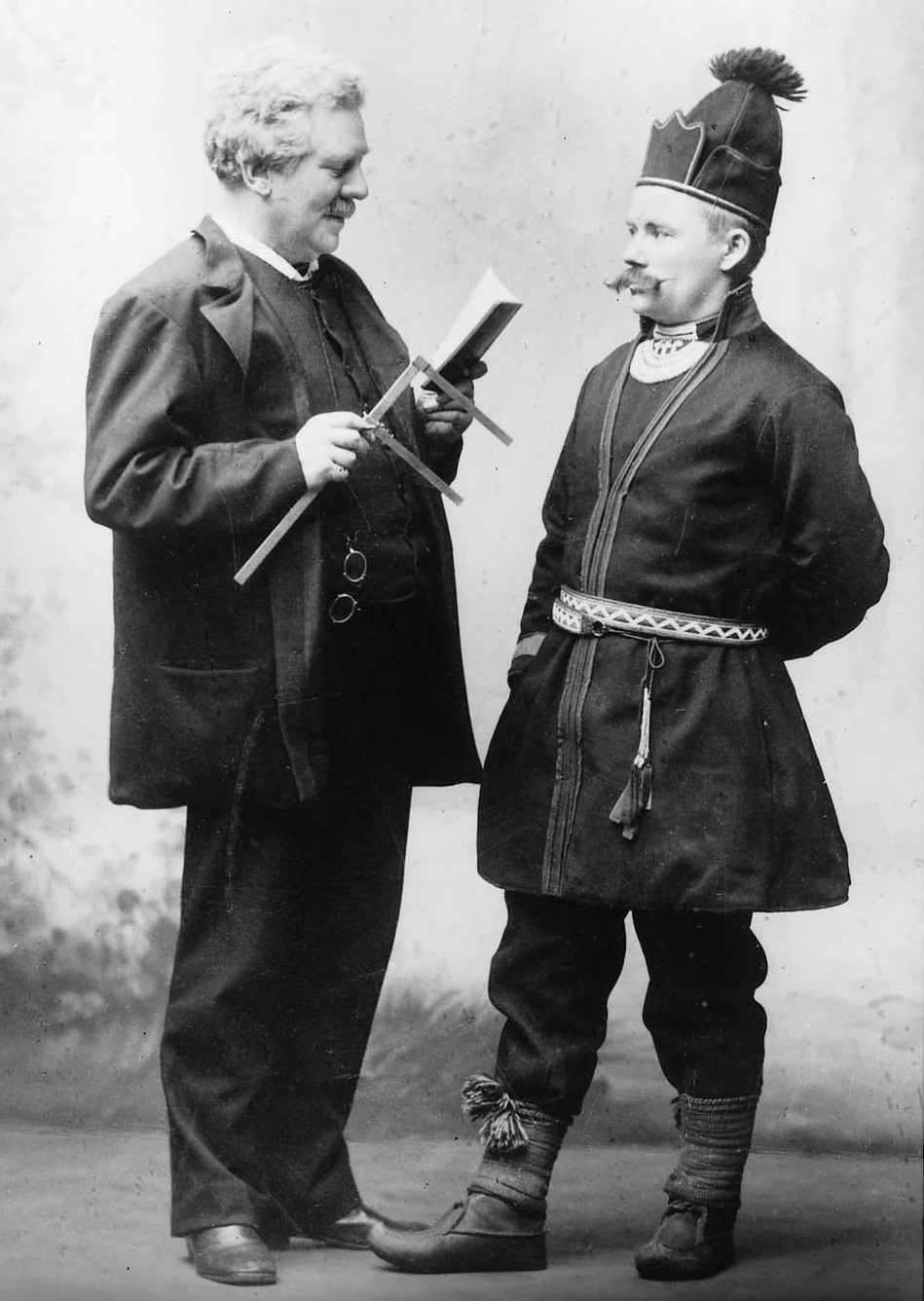 Depicted person: Gustaf Retzius, PROFESSOR; Fjellstedt